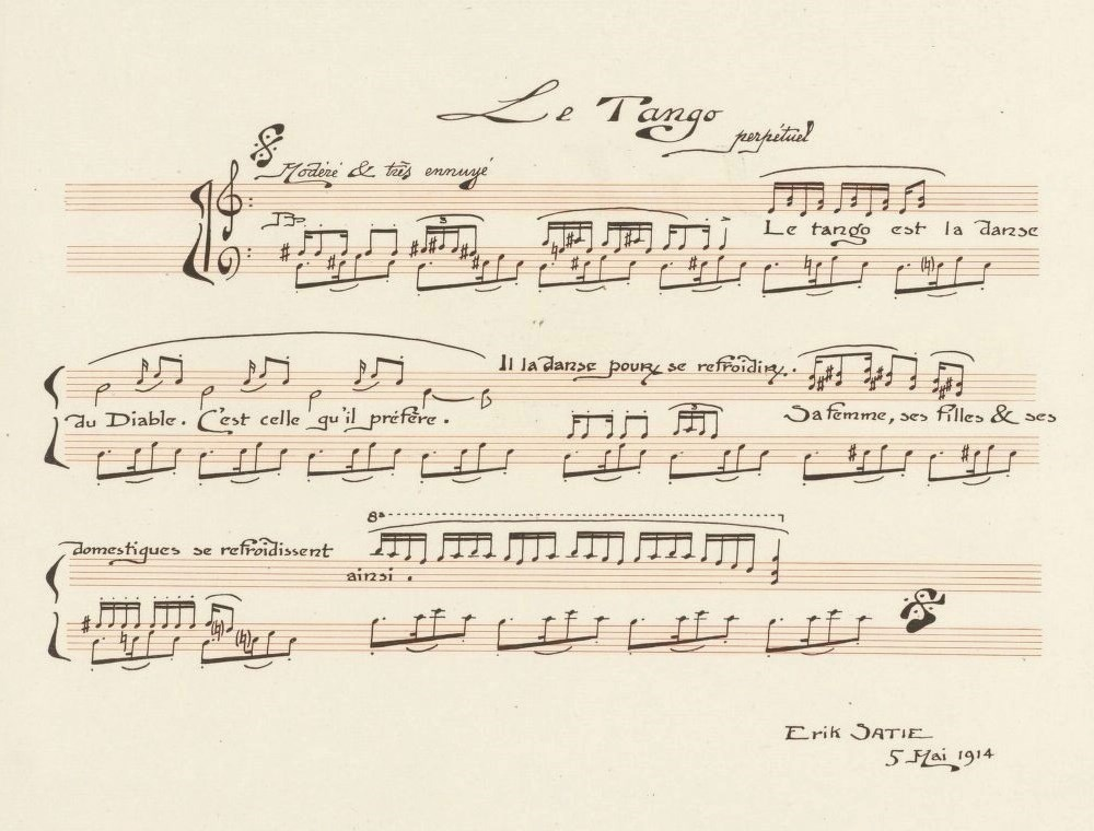 cropped version